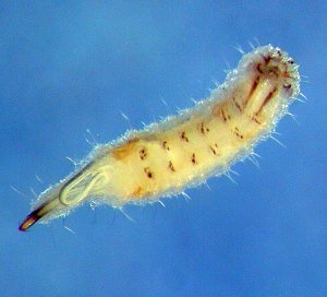 Helophilus pendulus, Primärlarve, Frankfurt am Main, Germany